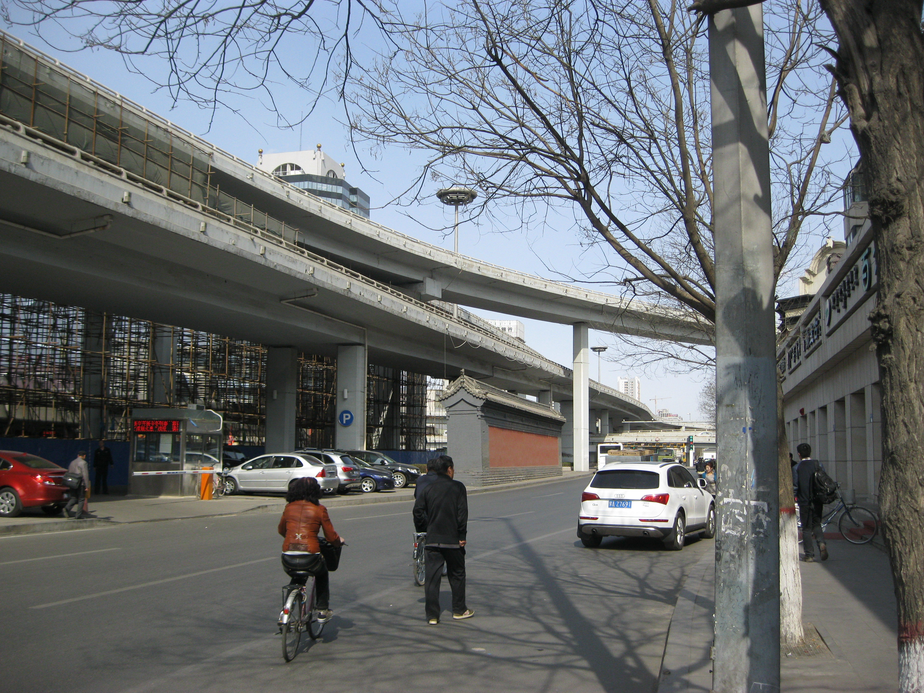 The spirit screen wall under highways